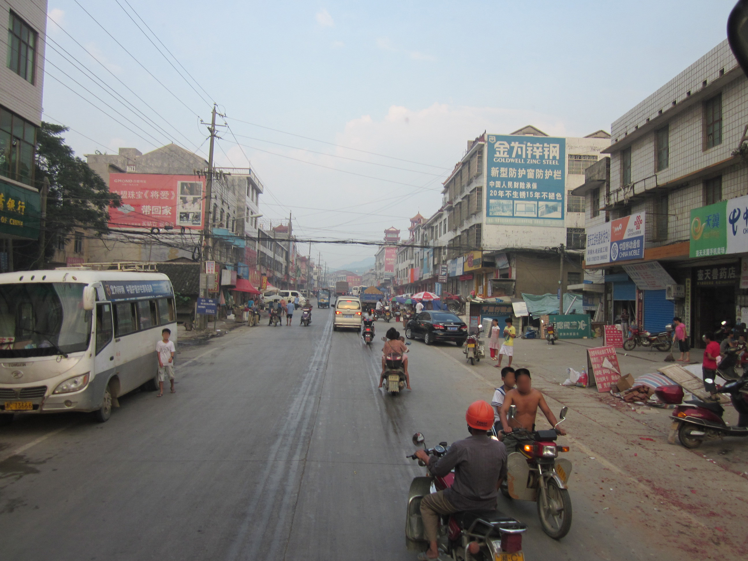 Hutian Town(simplified